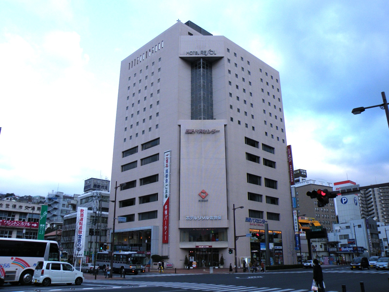 Sasebo Kotsu Center